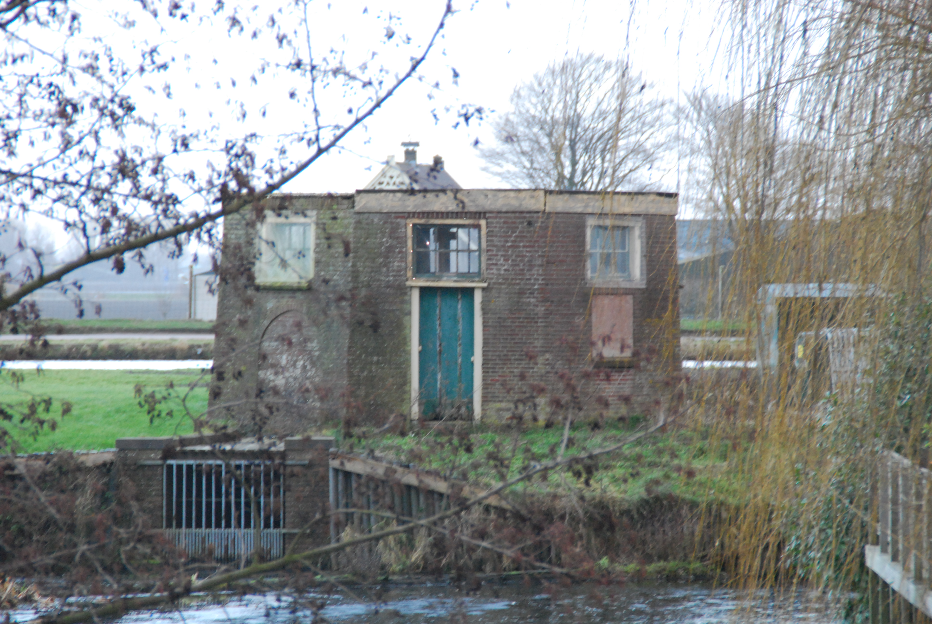 Venniperpoldermolen in Hillegom, the Netherlands